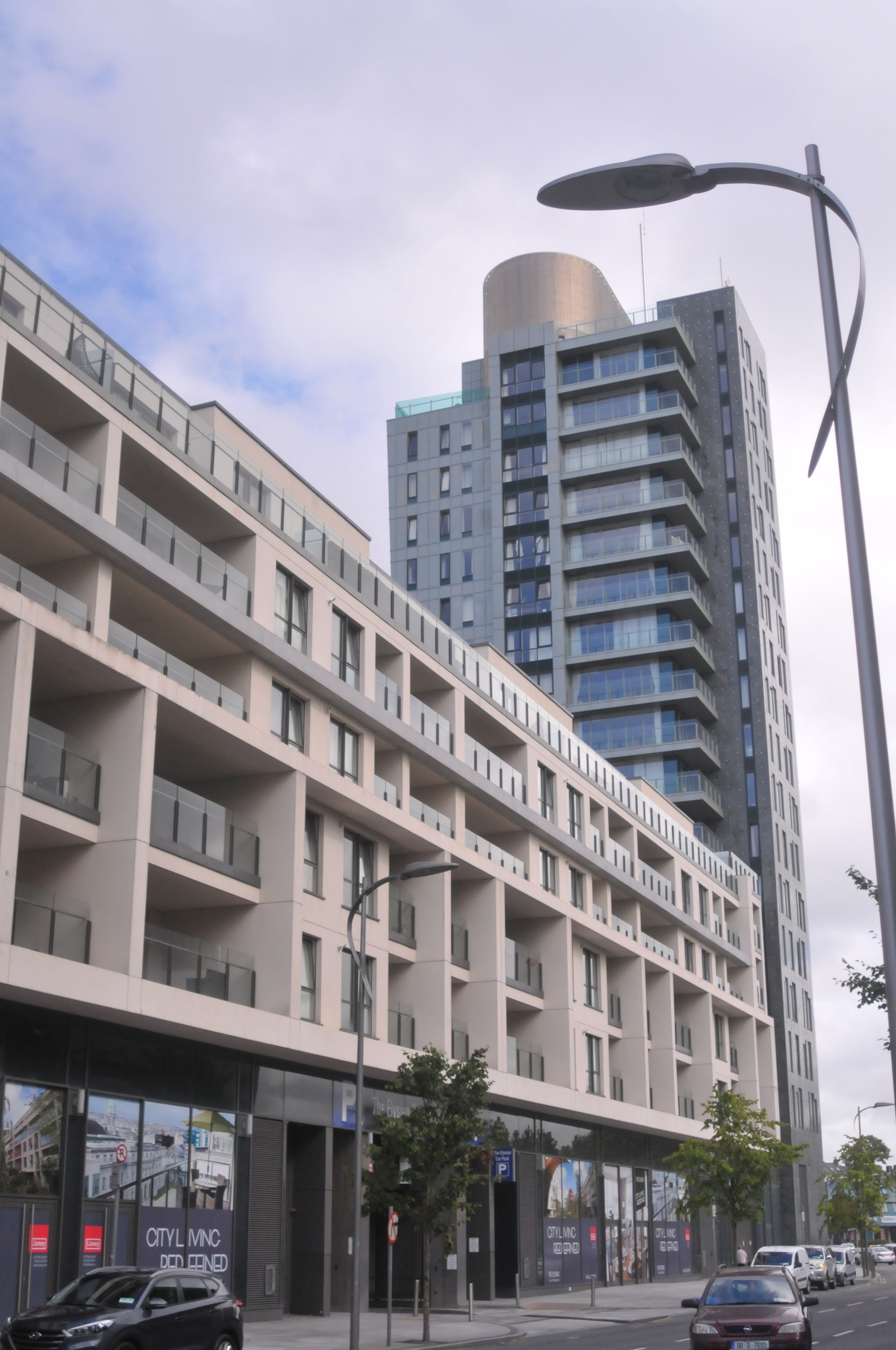 The Elysian Cork City 2017.